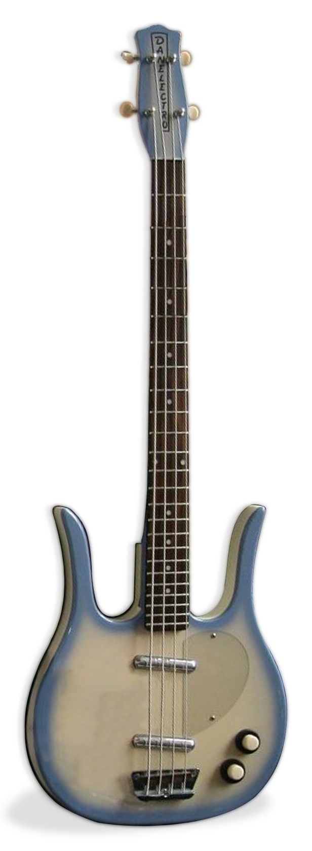 Danelectro Longhorn Bass [1]